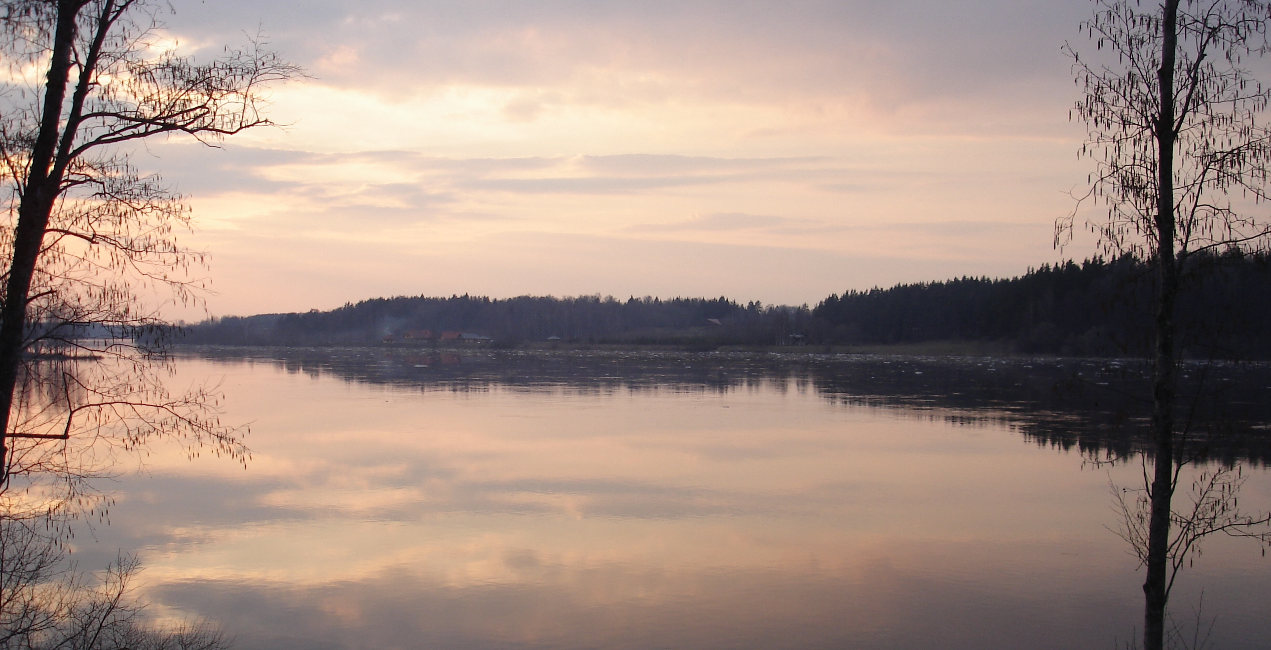 river